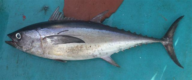 Thunnus tonggol collected off Ormara, Pakistan.